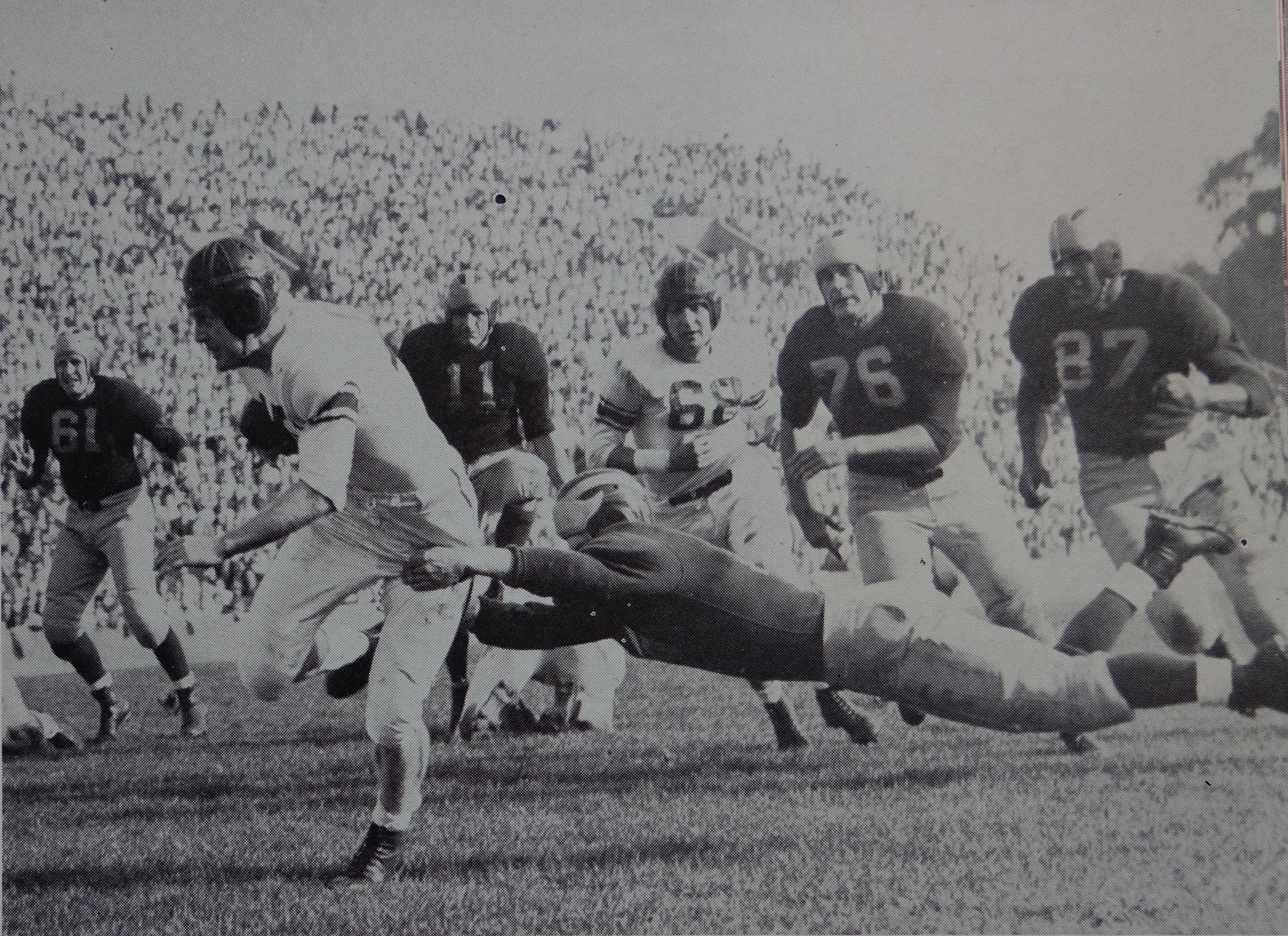 University of Michigan football player Bump Elliott "bums a ride from" Northwestern football player Jules Slegel as Len Ford (87), Ralph Kohl (76), Lloyd Heneveld (61), and Albert Wistert (11) "close in for the kill" University of Michigan football player Bump Elliott "bums a ride from" Northwestern football player Jules Slegel as Len Ford (87), Ralph Kohl (76), Lloyd Heneveld (61), and Albert Wistert (11) "close in for the kill"